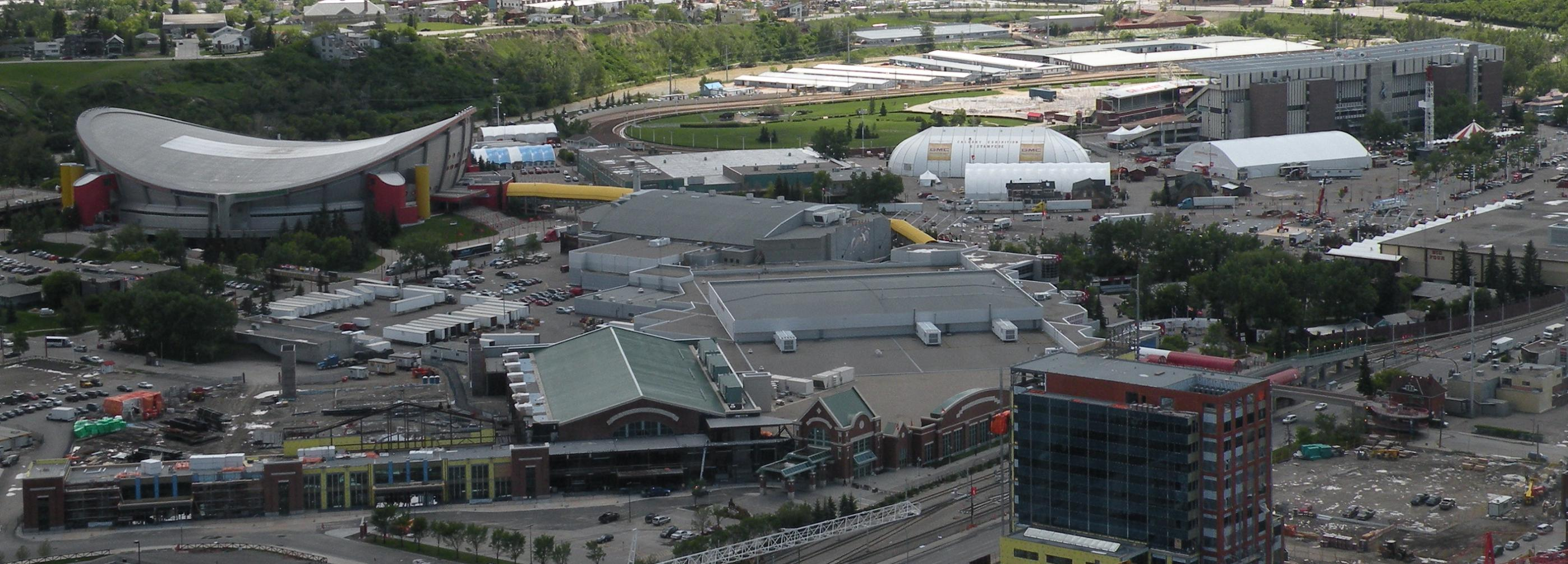 A view of the Pengrowth Saddledome within Stampede Park as seen from the observation deck of the Calgary Tower